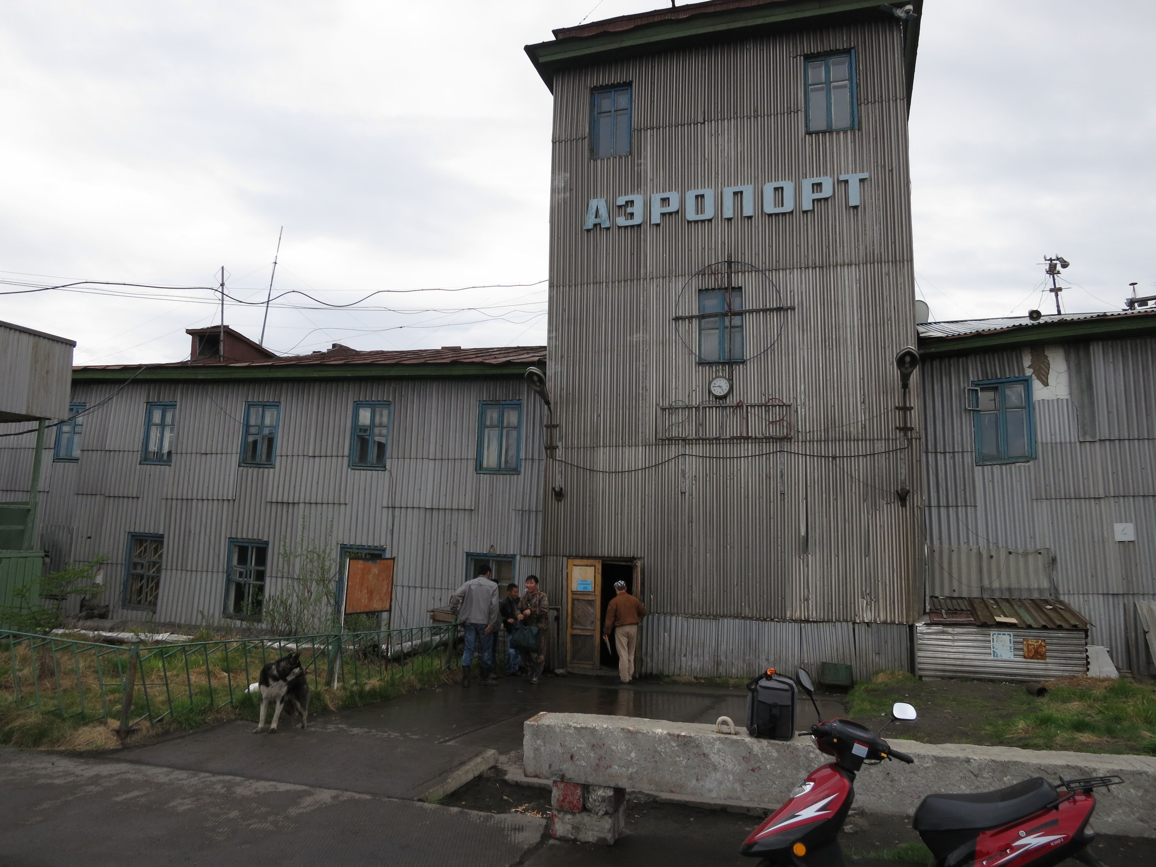 Khatanga